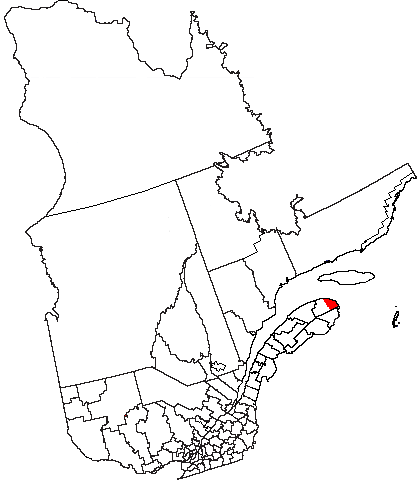 Location map for Gaspé. From Image:Quebec-gaspe.PNG. Uploaded by User:Earl Andrew.